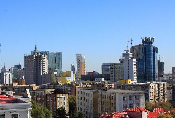 Qiqihar city scenery